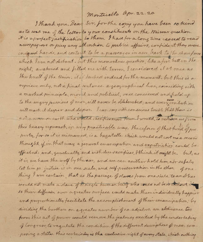 First page of two-page letter from Thomas Jefferson letter to John Holmes of April 22, 1820, supporting his position on the Missouri Compromise. Notably, the first attestation of the phrase to have the wolf by the ear.